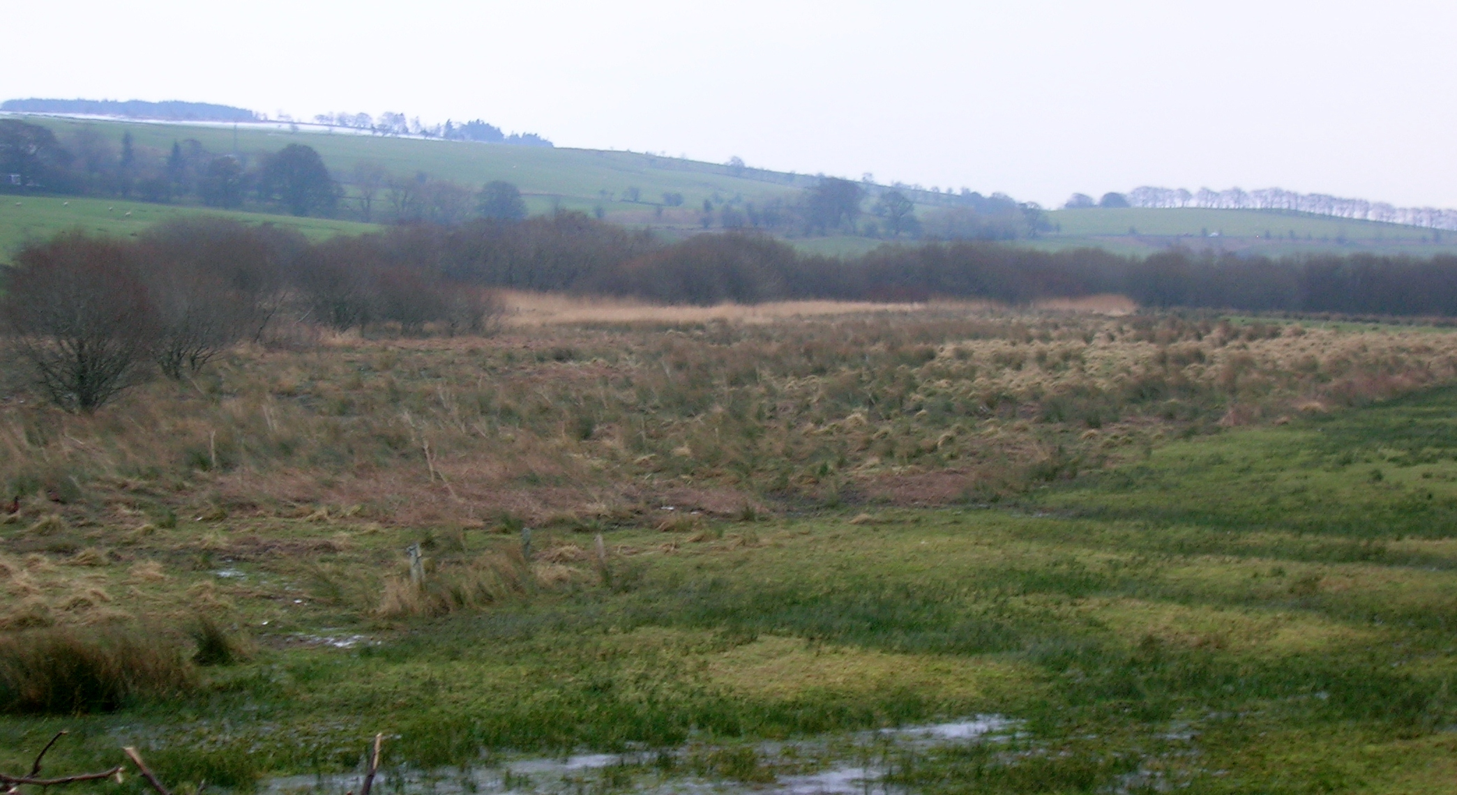 Black Loch and woodlands from near Polquhap, New Cumnock, East Ayrshire, Scotland